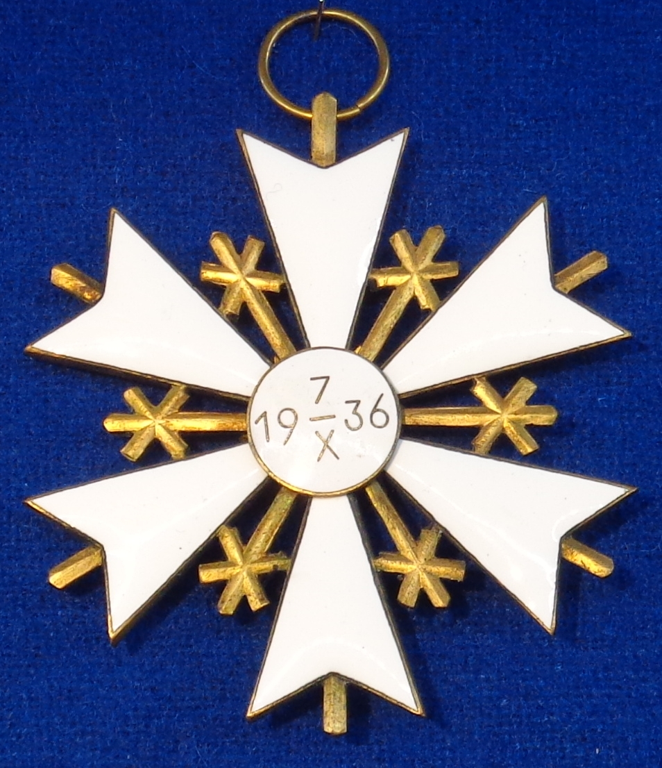 Order of the White Star 1st class, badge reverse, before 1940. Estonia. The exhibition of the Tallinn Museum of Orders of Knighthood, Estonia.